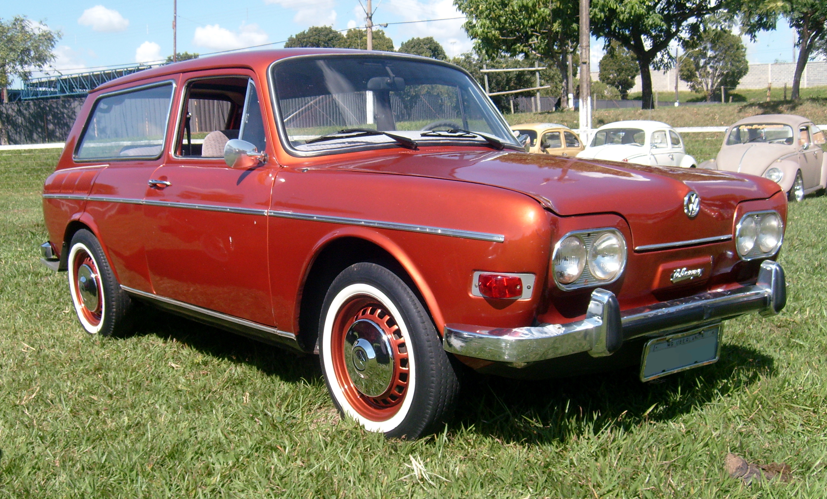 1970-1971 VW Variant (Brazil)